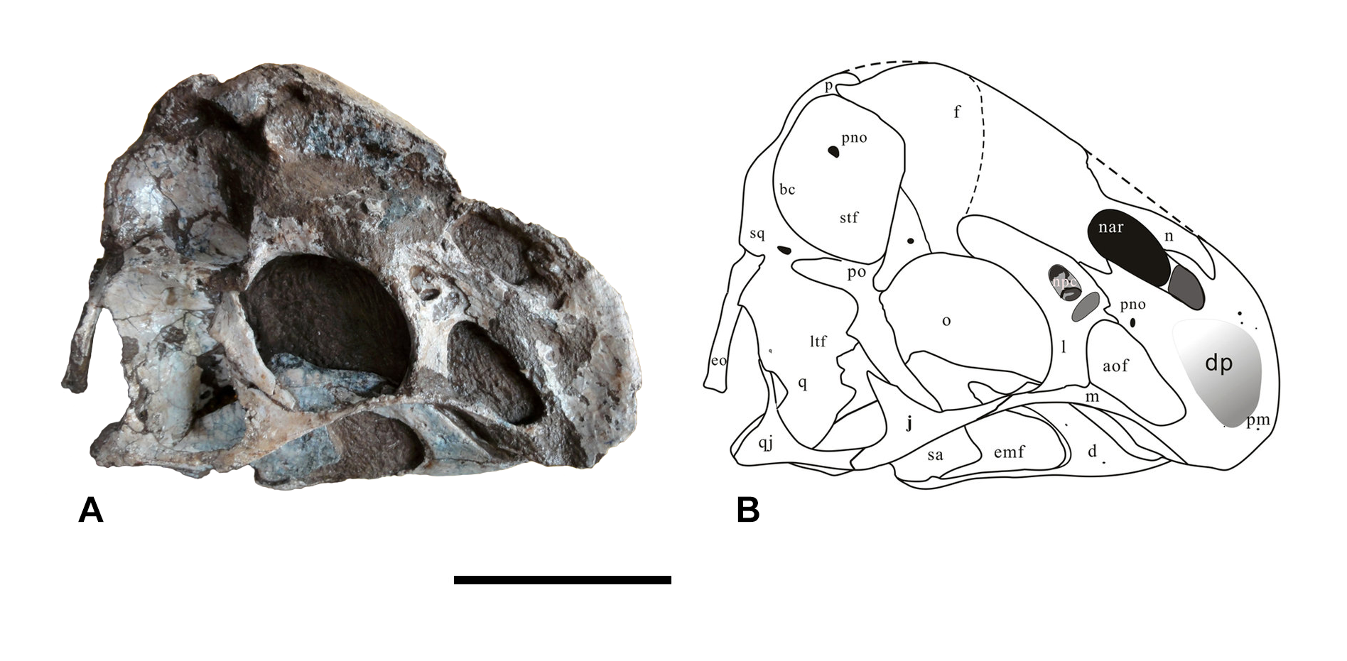 The photograph (a) and line drawing (b) of the skull: Tongtianlong limosus gen. et sp. nov. in right lateral view. Abbreviations: aof, antorbital fenestra; bc, braincase; d, dentary; emf, external mandibular fenestra; eo, exoccipital; f, frontal; j, jugal; l, lacrimal; ltf: lower temporal fenestra; m, maxilla; n, nasal;nar, narial opening; npc, nasopharyngeal canal; o, orbit; p, parietal; pm, premaxilla; pno, pneumatic opening; po, postorbital;q, quadrate;qj, quadratojugal; sa, surangular; sq, squamosal; stf, supratemporal fenestra. Scale bar = 5 cm. Modified from the original image for Wikipedia.